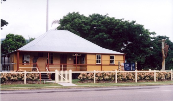 Old telegraph and post office, Bruce Highway, Cardwell, building dates form 1870, refurbished and opened as a heritage centre in 2003.